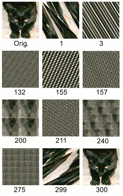 Arnold's cat map sample (Chaos theory)